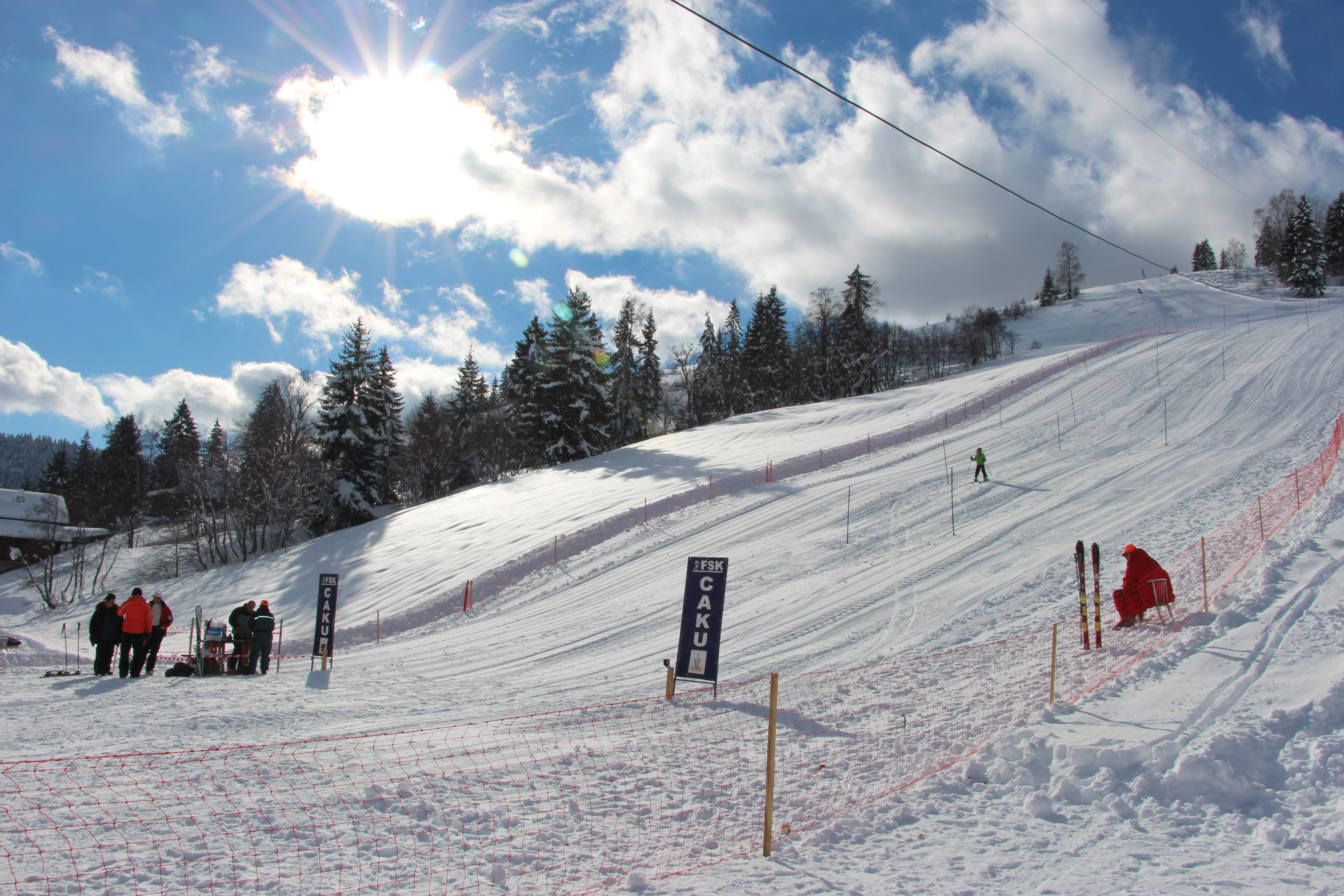 SKI CENTER BOGE RUGOVA